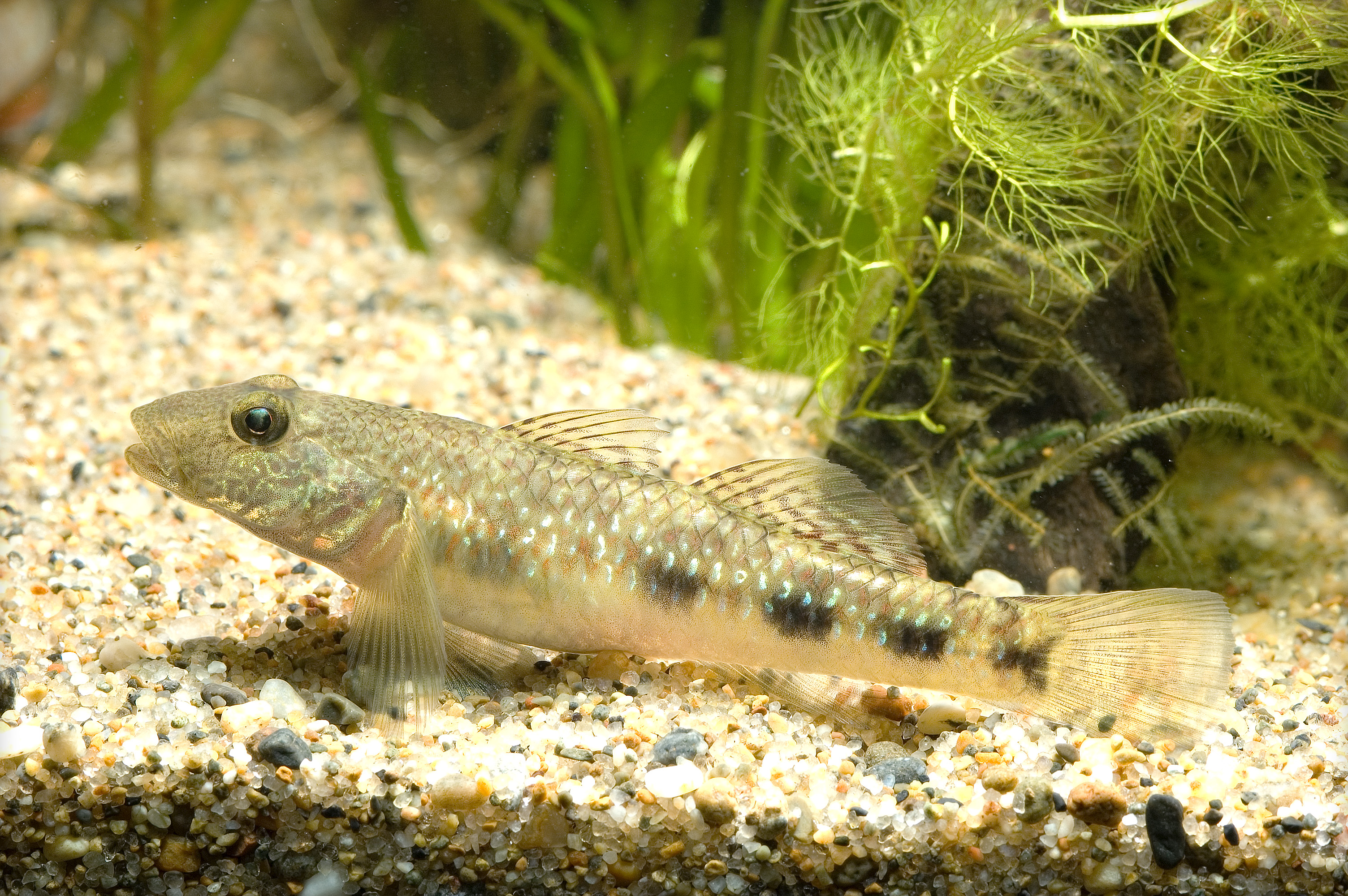 Gokurakuhaze, Rhinogobius giurinus, from Hamamatsu, Shizuoka, Japan.